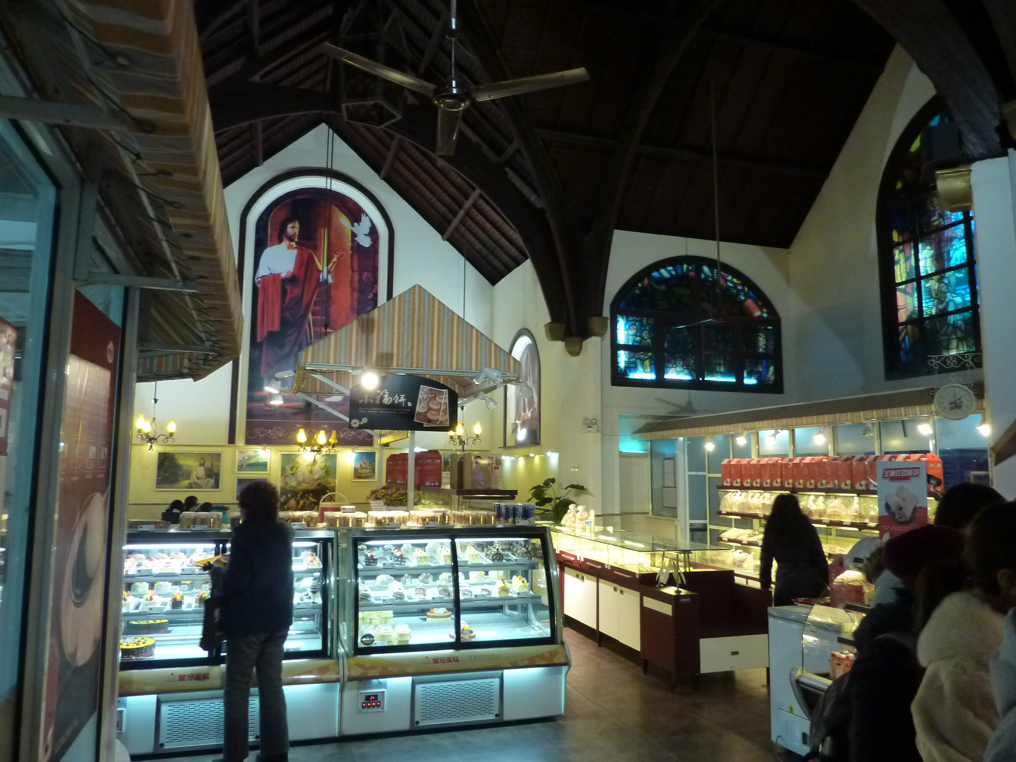 Former Methodist Church in Wuchang (Wuhan). It is located in Wuluo St, in downtown Wuchang, across the street from the bus station. Now the church has been converted to an upscale pastry shop (皇冠蛋糕, "Crown Bakery") with church-themed decor. The Methodist school behind the chuirch is now Wuhan Secondary School No. 15.